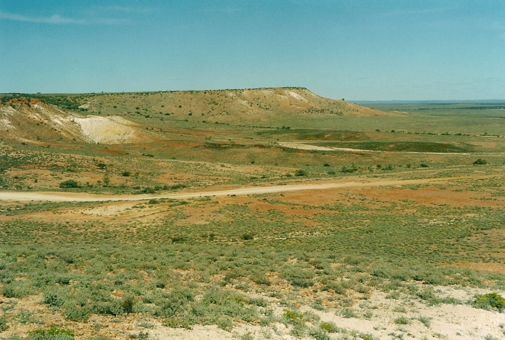 Sturt National Park near Olive Downs Station 27/7/01